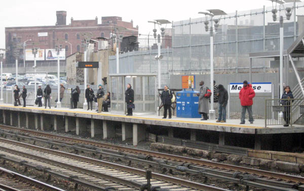 Melrose Metro-North train station northbound platform 8:05 a.m.